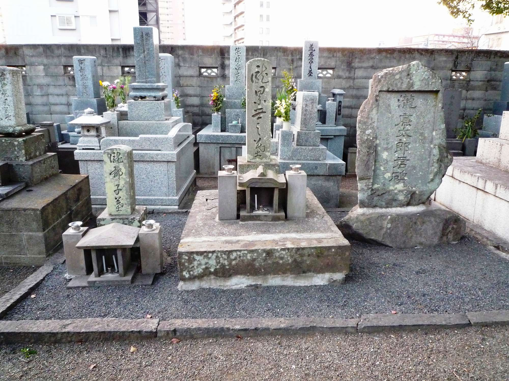 Renatrou Taki's Tombstone(Manjyuji-Temple)